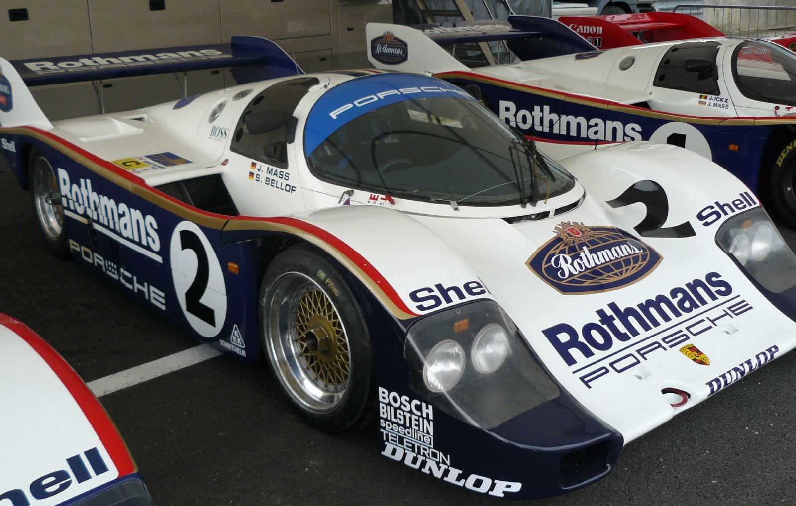 A Porsche 956 at the Silverstone Classic